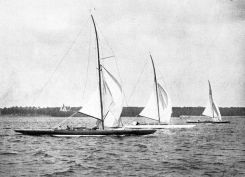 40m2 Skerry cruiser Sailing at the 1920 Summer Olympics